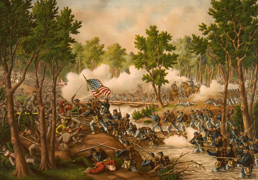 Battle of Spottsylvania--Engagements at Laurel Hill & NY River, Va. ... May 8 to 18, 1864.